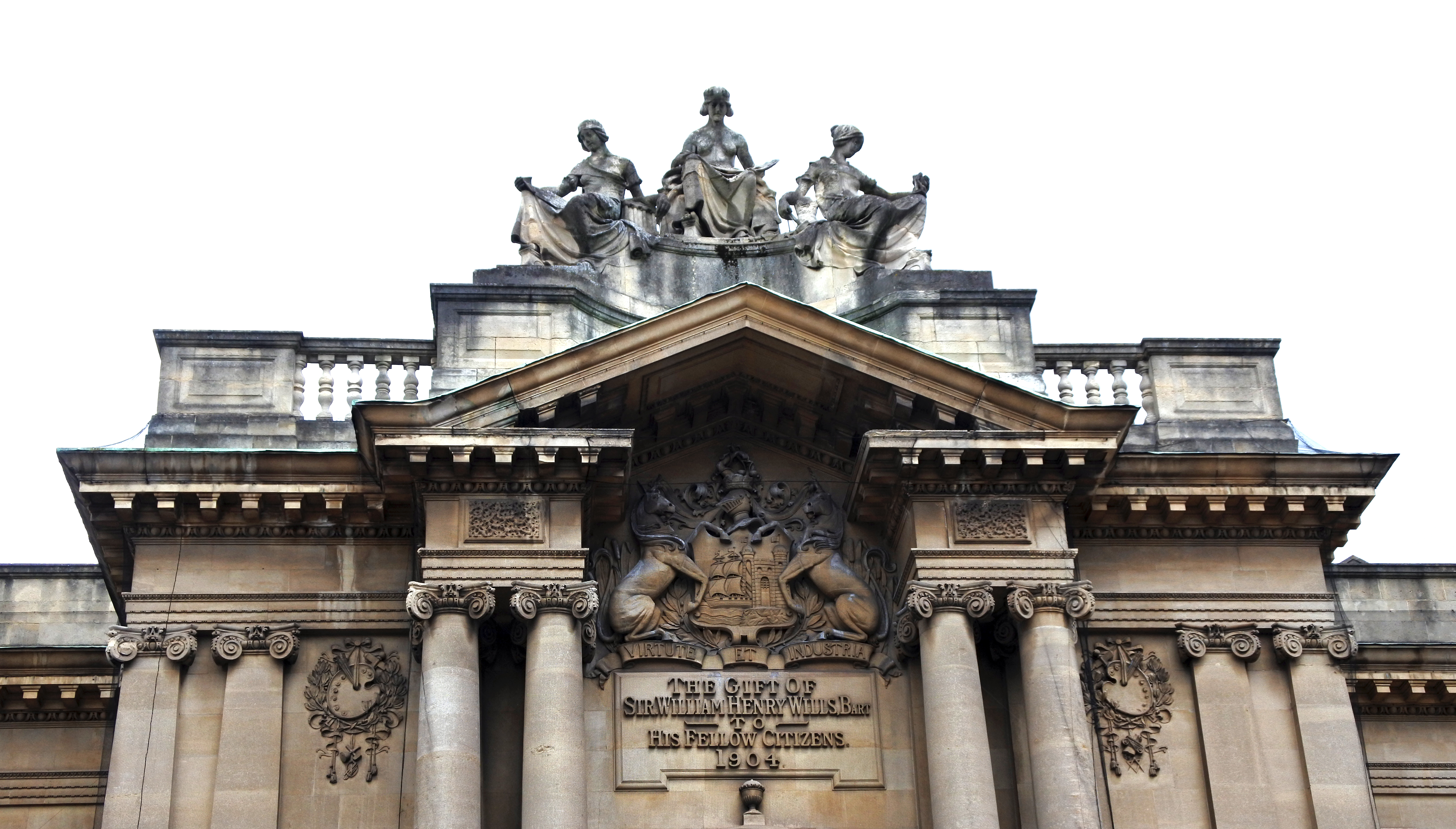 Front building detail of Bristol City Museum and Art Gallery.